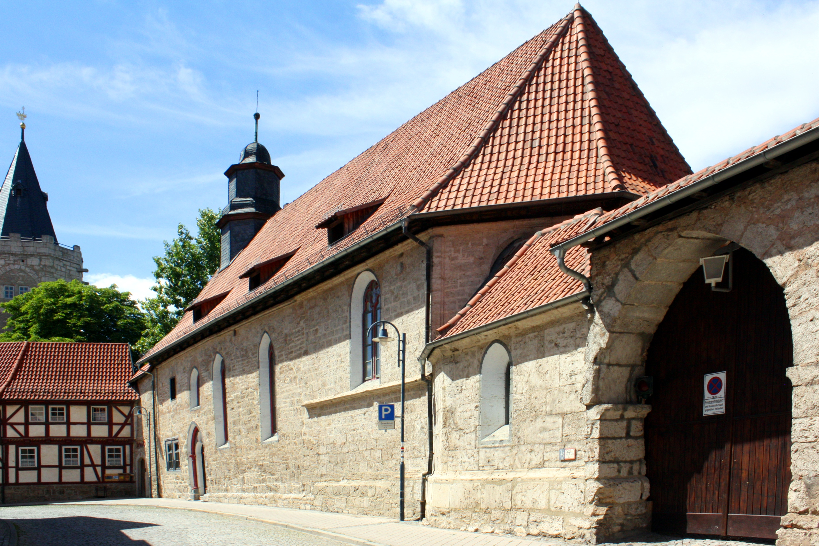 Antonius chapel in Mühlhausen/Thuringia